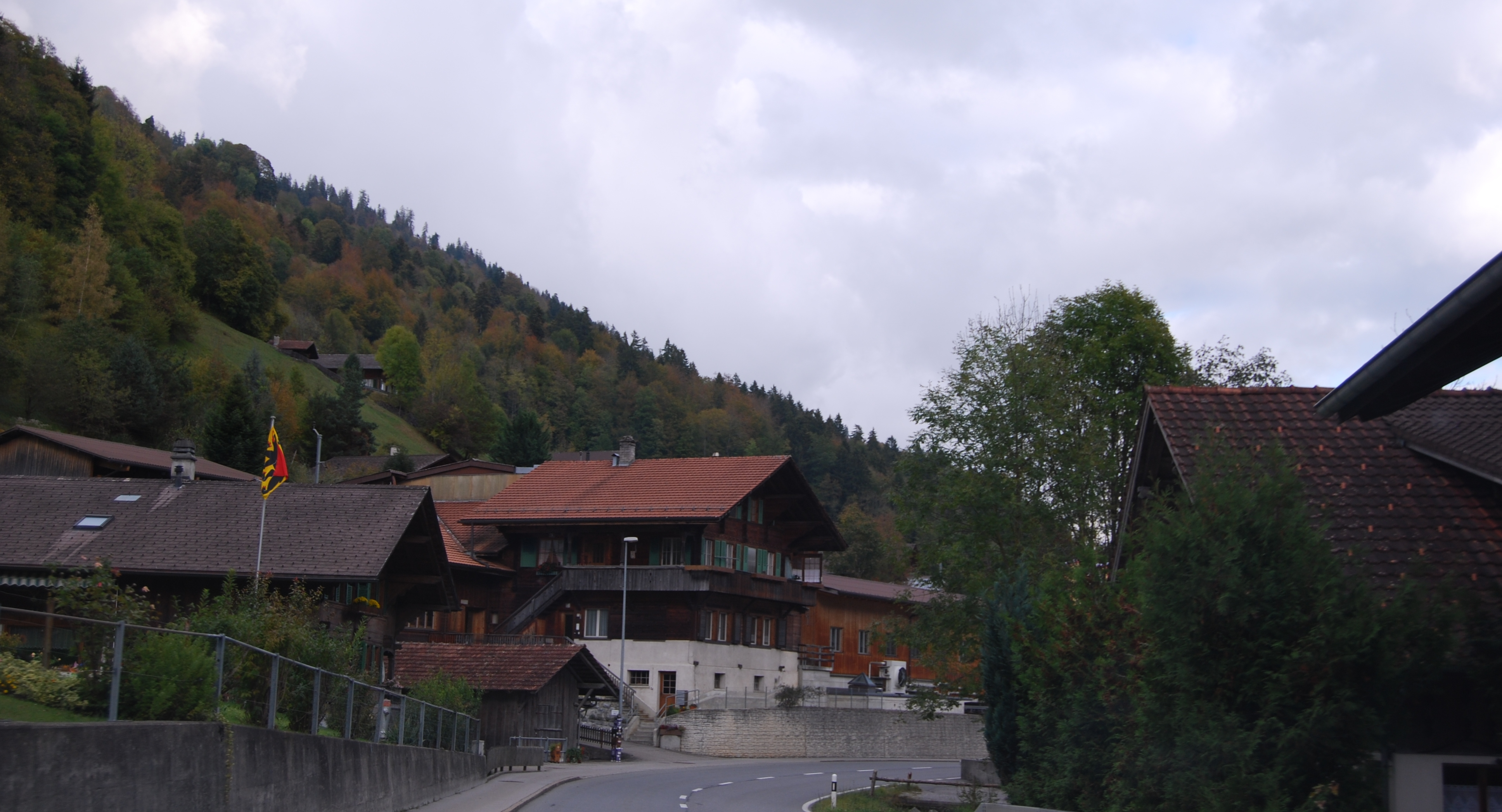 Därstetten, canton of Bern, SwitzerlandEsperanto: Därstetten, Kantono Berno, Svislando